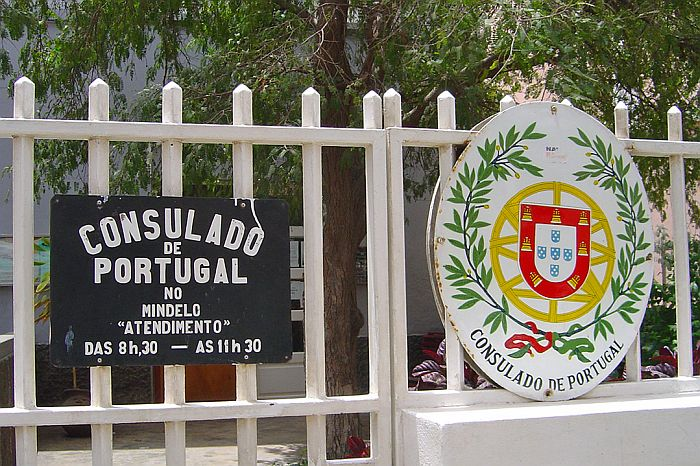 Portuguese Consulate in Mindelo, Cape Verde. 2006.